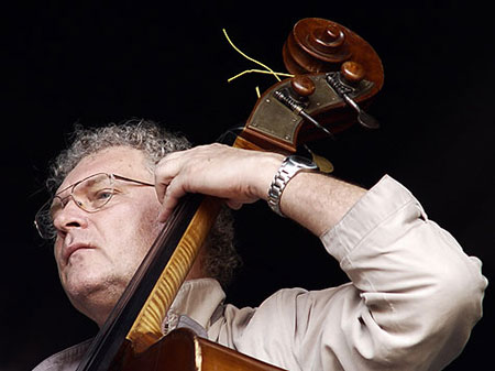 Miroslav Vitous